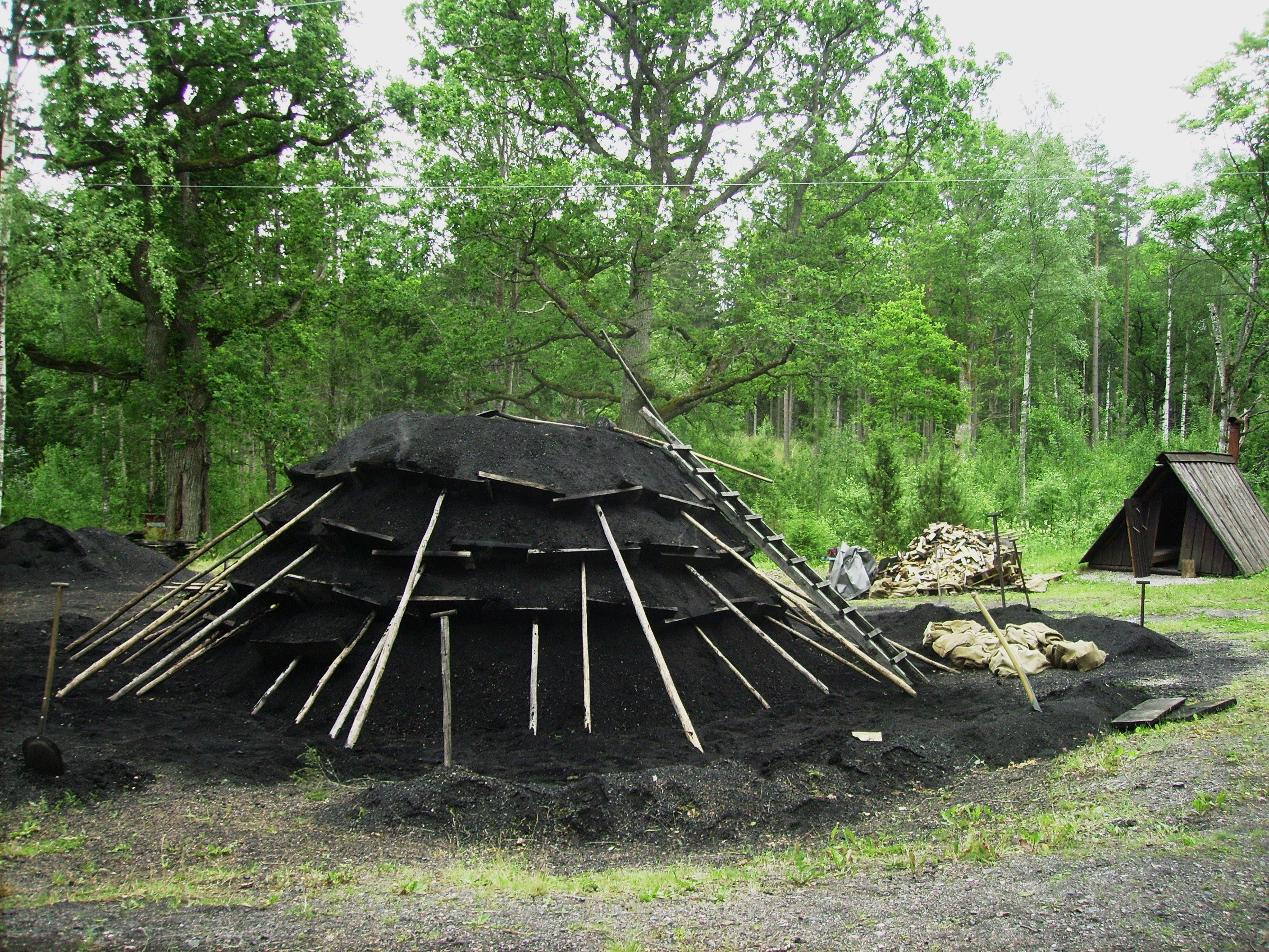 Picture of a charcoal stack in Skottvångs gruva in Södermanland